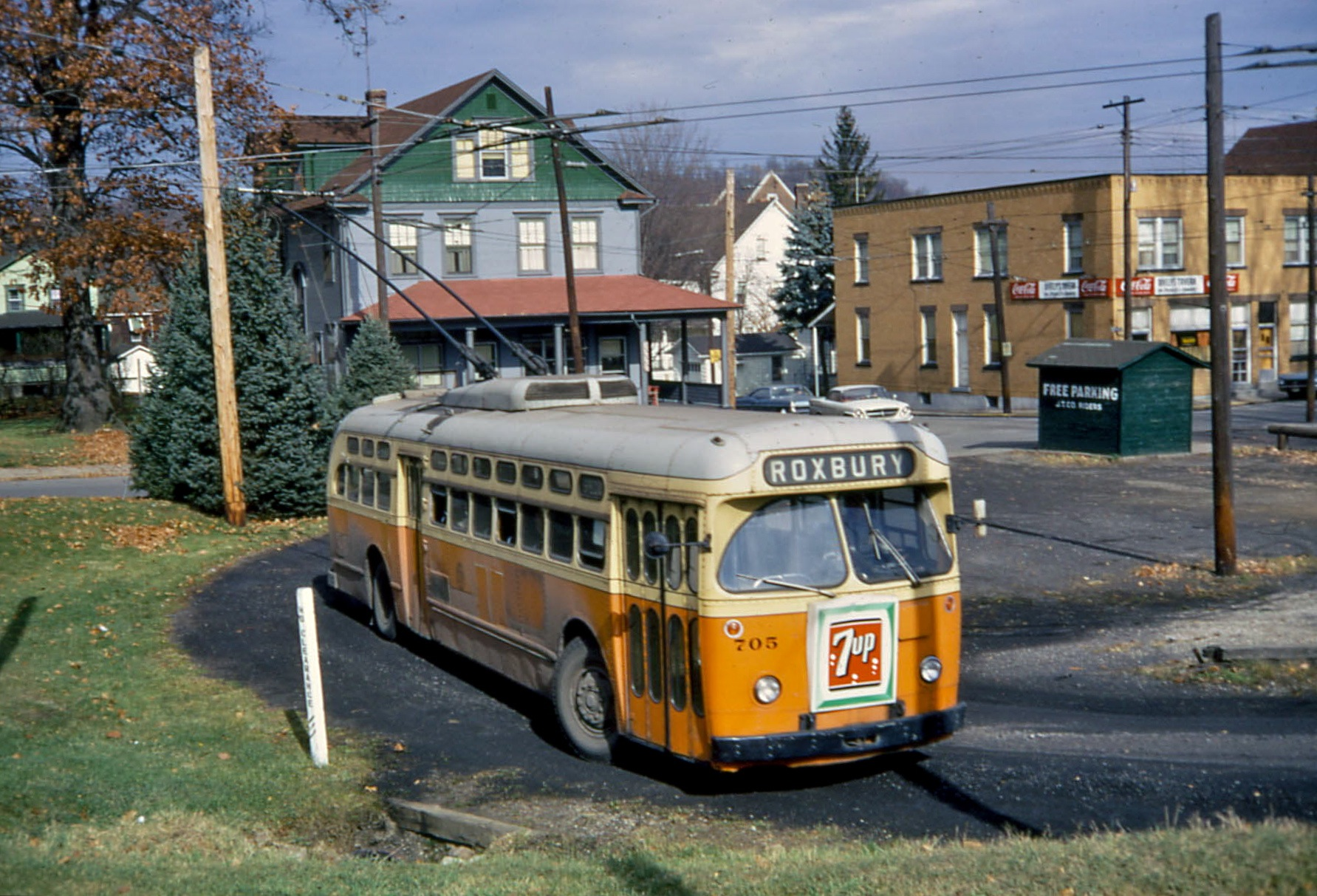 On the last day of trolleybus service in Johnstown, Pennsylvania, No. 705 (built in 1951 by the St. Louis Car Company) is laying over in the off-street loop at the outer end of the Roxbury line.